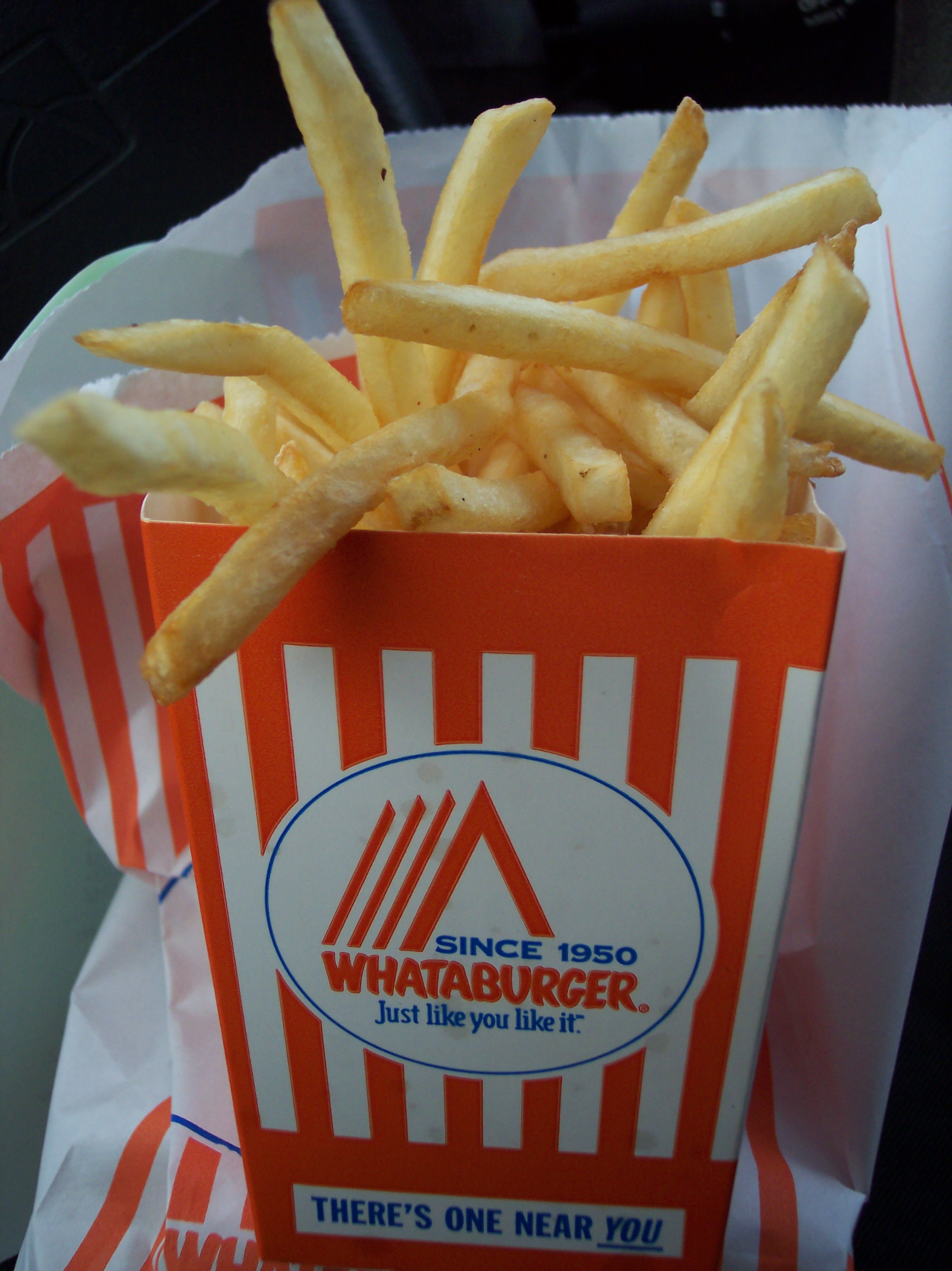 A large order of french fries from Whataburger